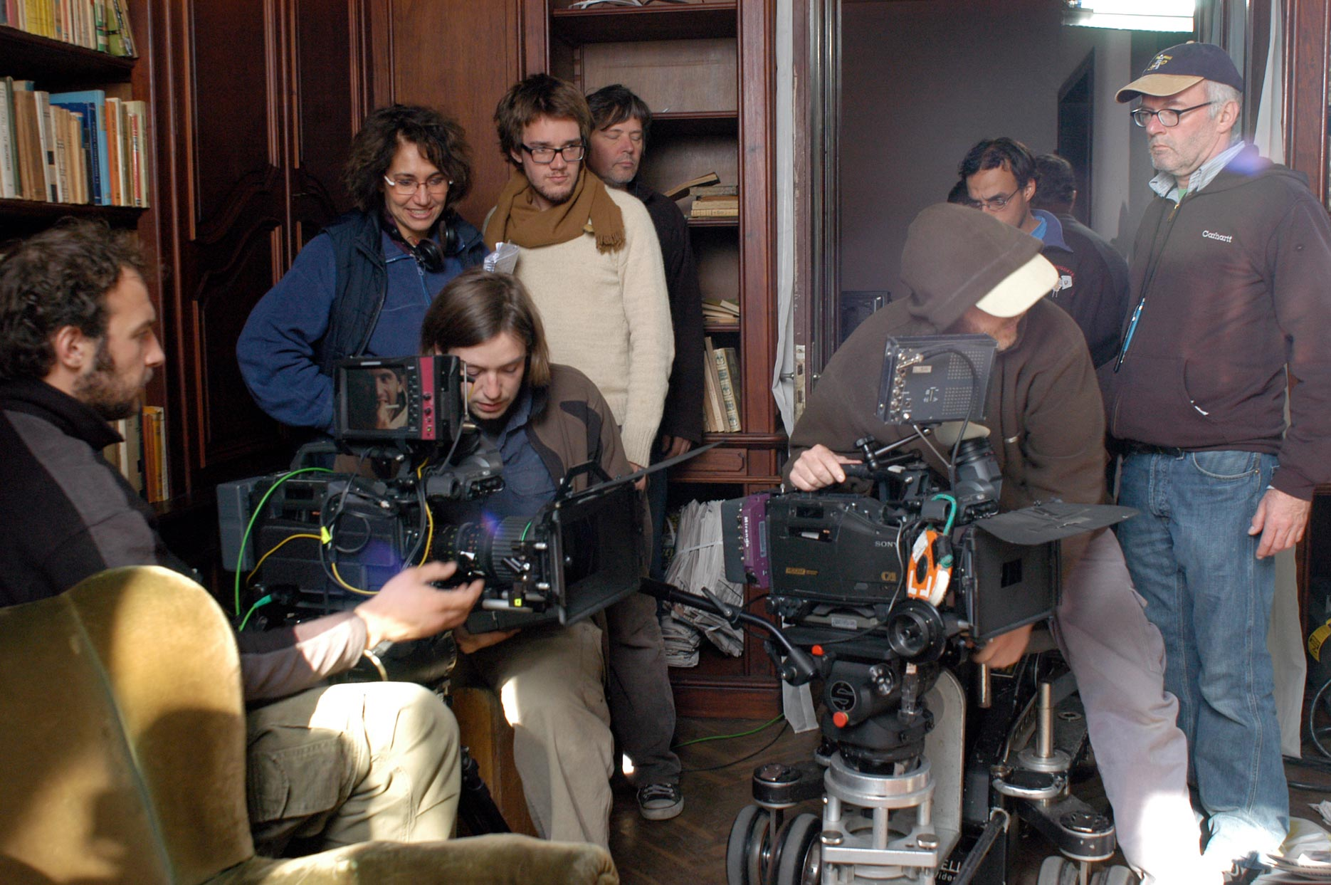 Photo of film crew working in Masangeles